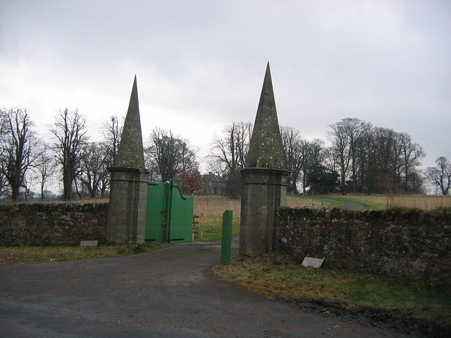 Rosebery. Big house between striking gateposts, note the cctv.